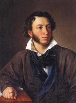 Alexander Pushkin